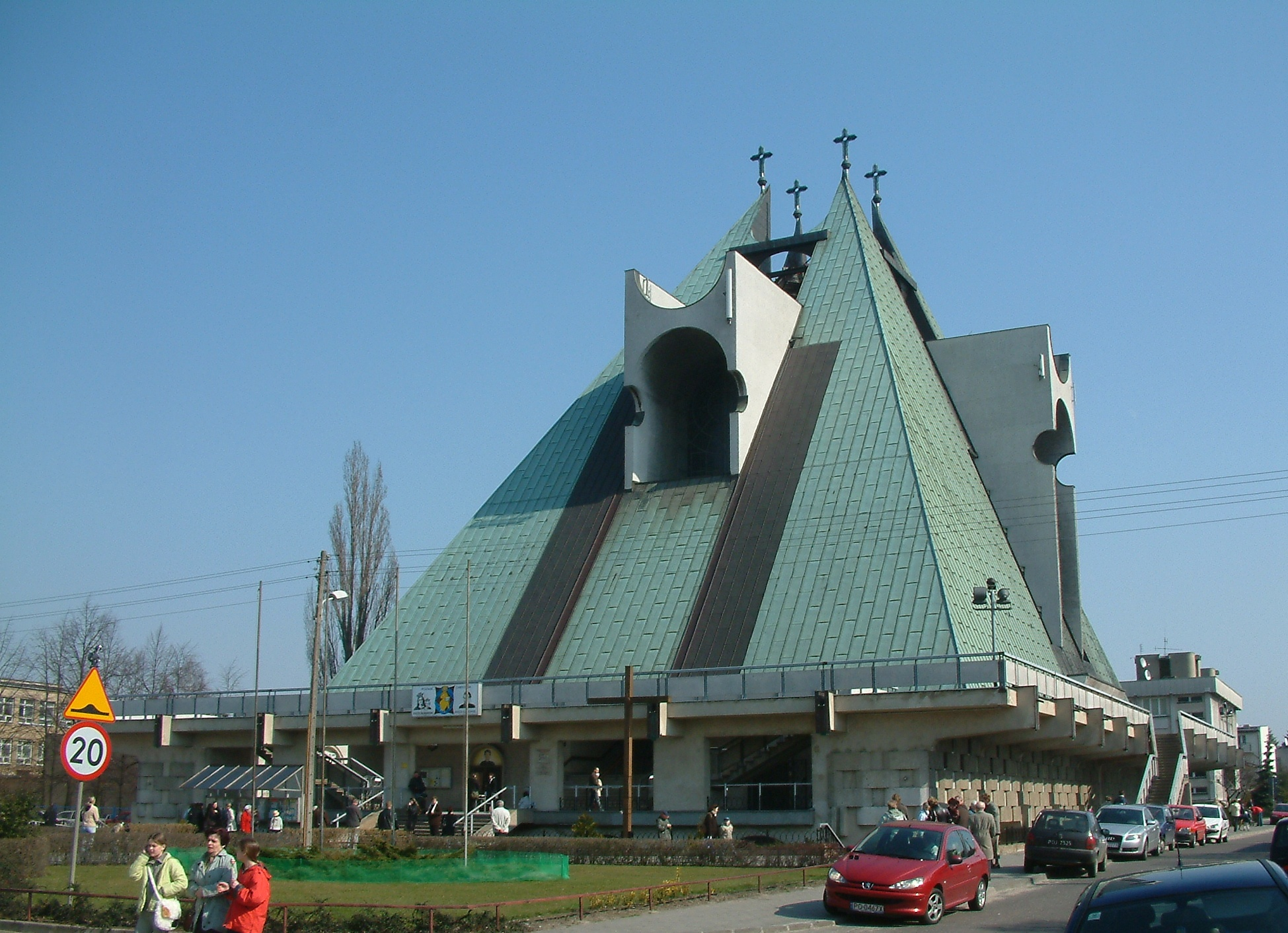 Church of St. John Bosco in Poznań